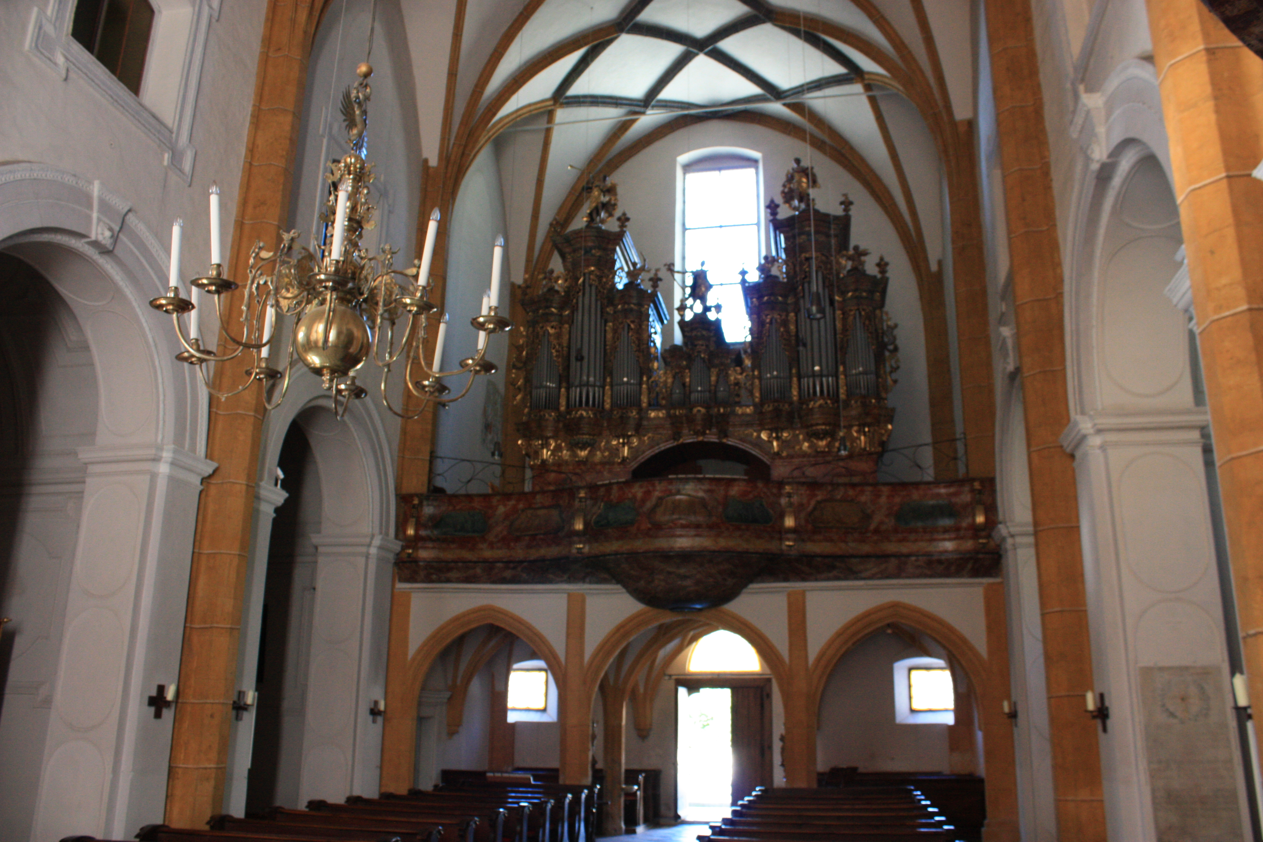 Parish church Saint Niklaus - View to the organ loft Locality:Straßburg Community:Straßburg